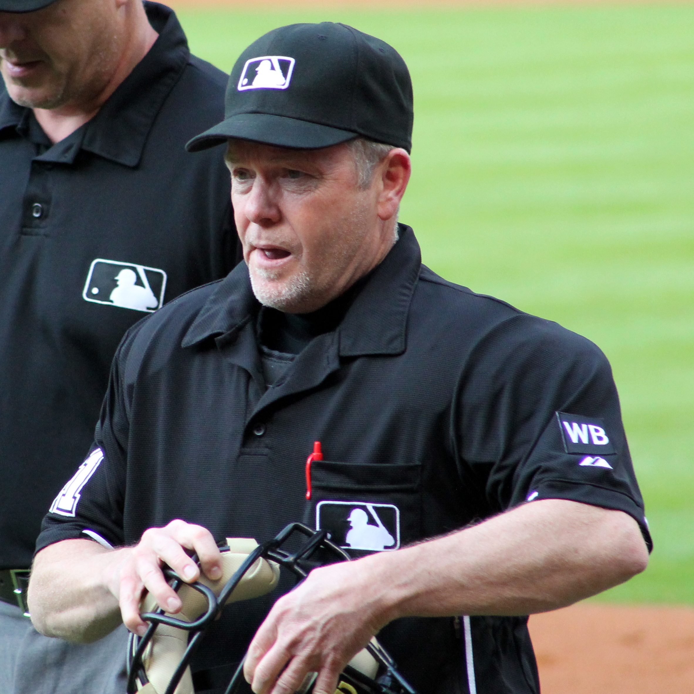 Major League Baseball umpire Jerry Meals before an April 2014 game at Minute Maid Park.